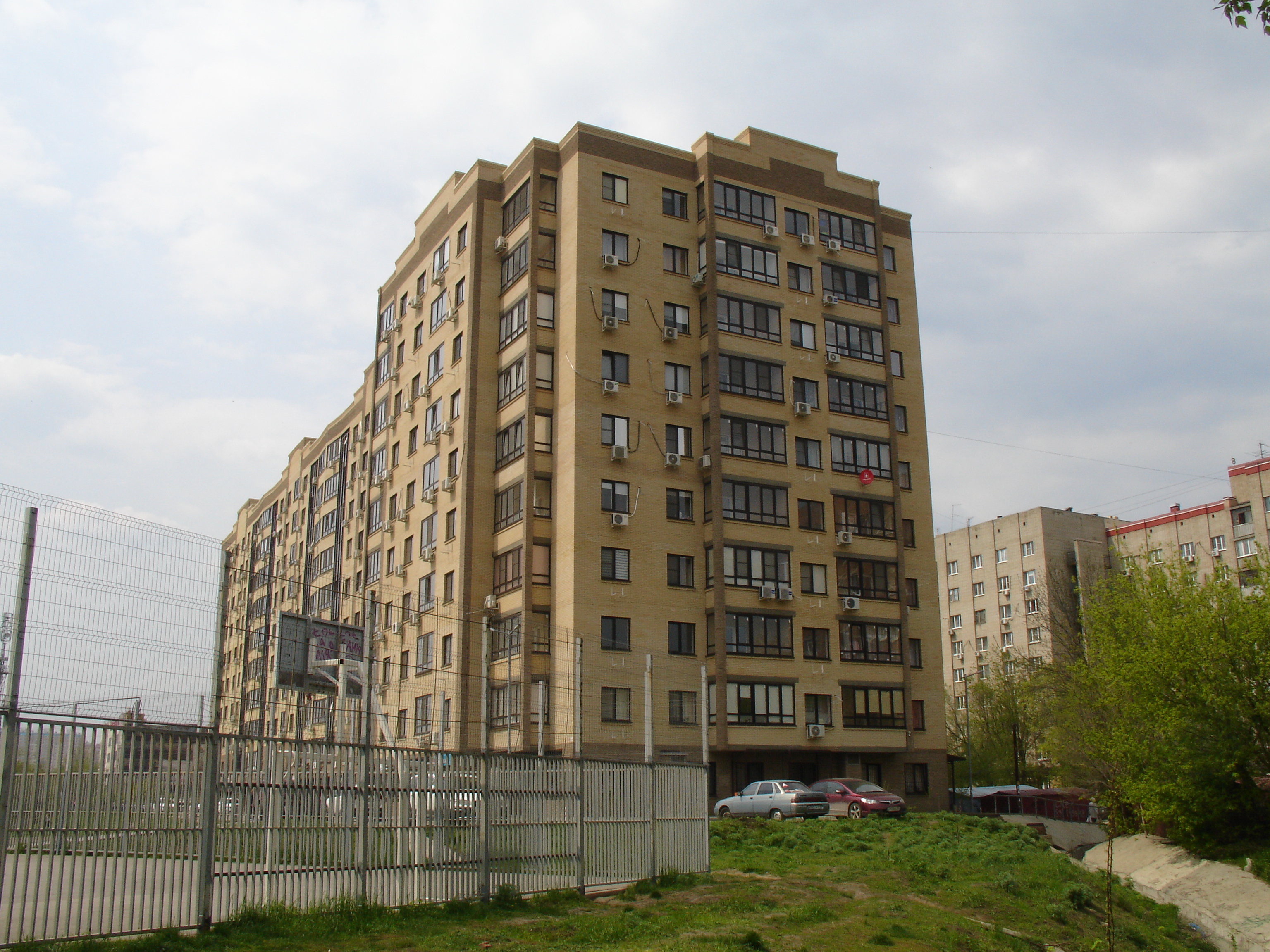 Apartment house near Igor Ryabinin arroyo. 66/1 Malinovskogo street, Rostov-on-Don